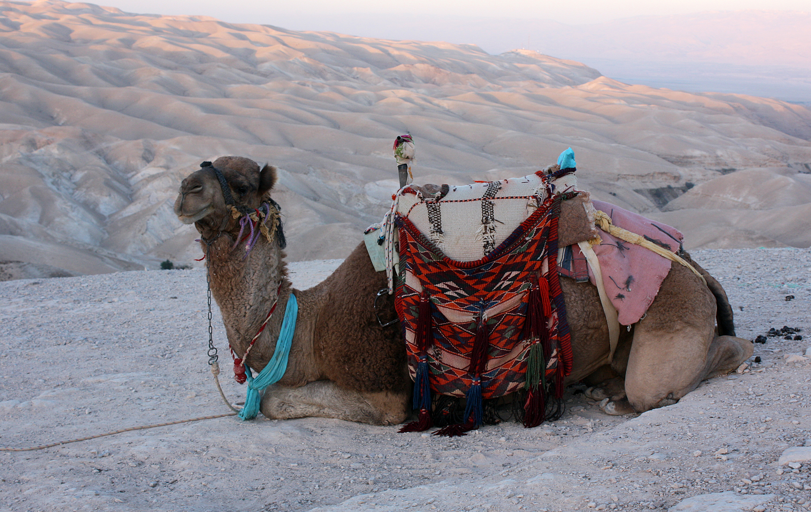 Camel in Judean Desert is prepared for camel ride